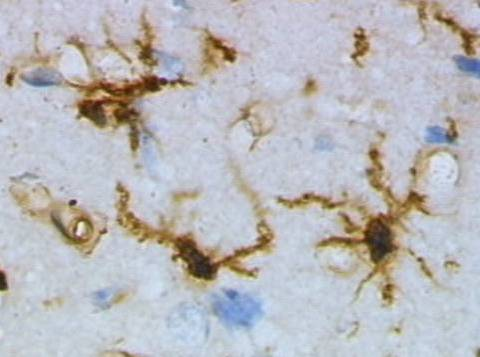 Microglia cells positive for lectins (brown). (Author: Grzegorz Wicher)